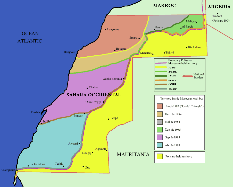 Chronological map of successive layers of the Moroccan berm in Western Sahara